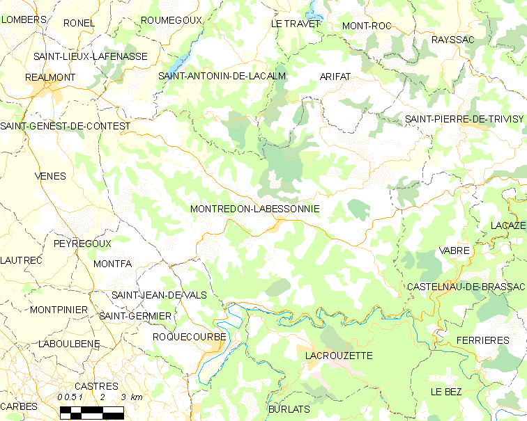 Map commune FR insee code 81182.png - Montredon-Labessonnié